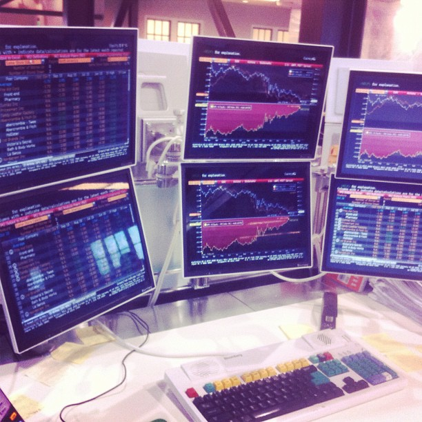 Bloomberg six-screen setup @ Bloomberg West, San Francisco 2012 Bloomberg Terminal photo by jm3. Creative Commons licensed, Attribution, ShareAlike For use on Bloomberg Terminal article.